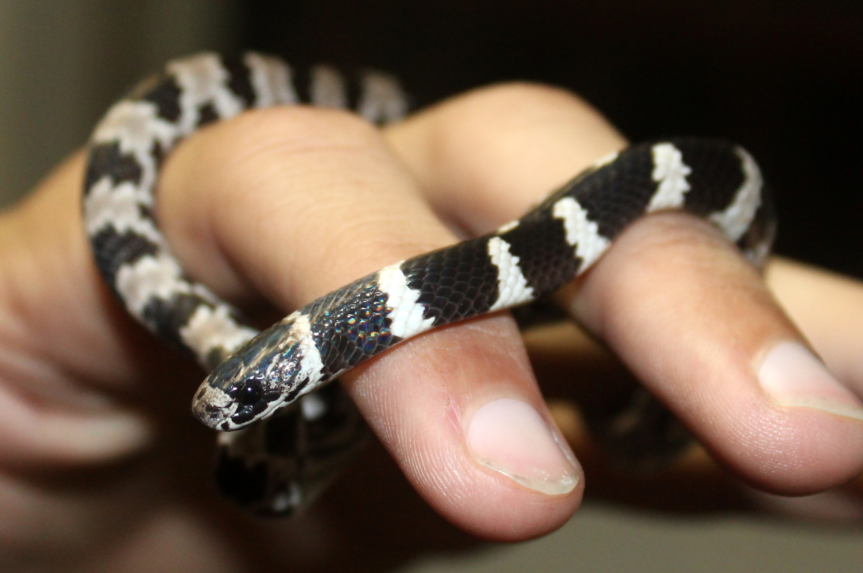 Sleep snake (Sibynomorphus mikanii) in Zoology Museum João Moojen (Museu de Zoologia João Moojen, MZUFV) in Universidade Federal de Viçosa (UFV), in Viçosa-MG, Brazil.